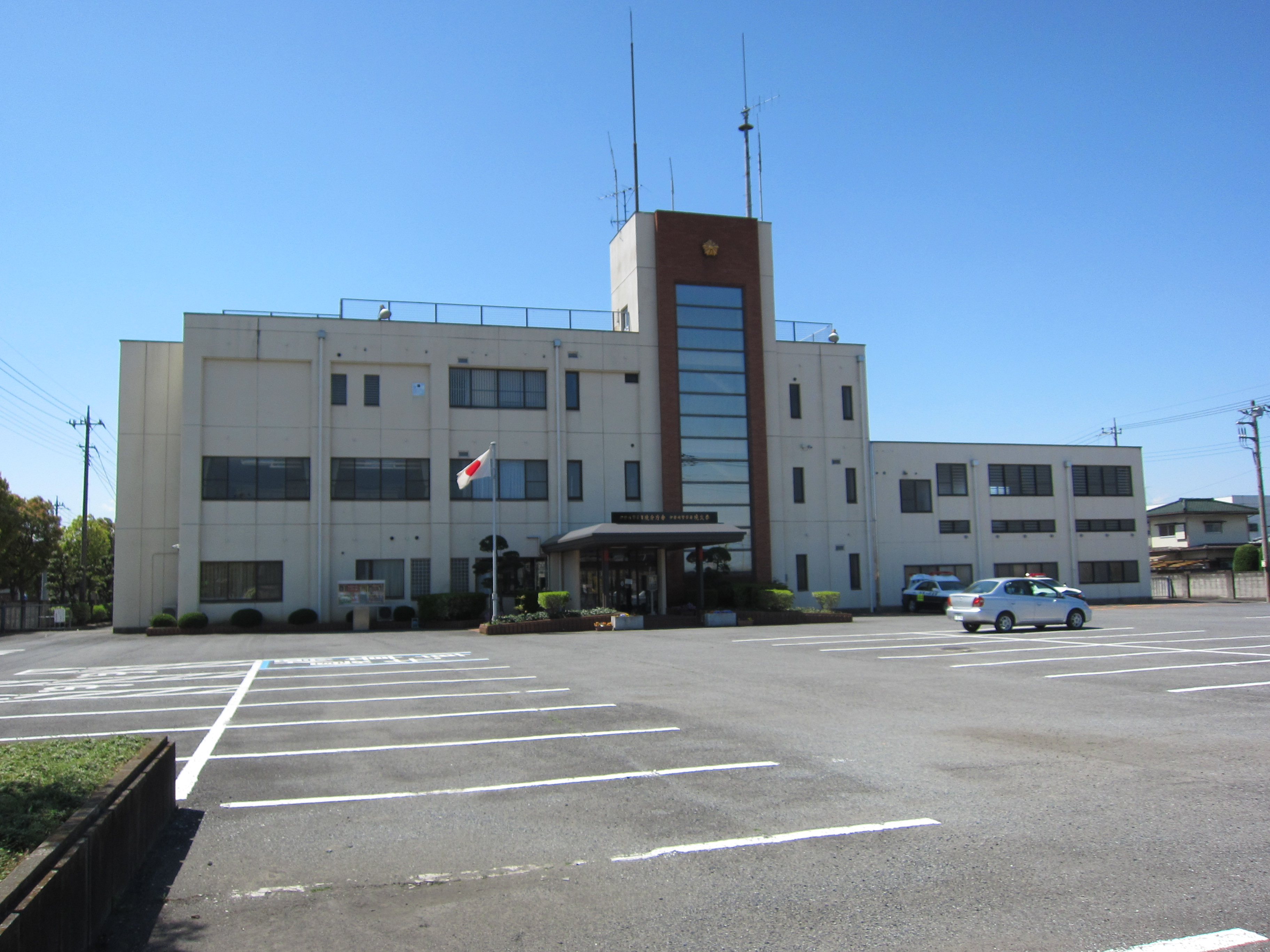 Isesaki Police Station Sakai Branch